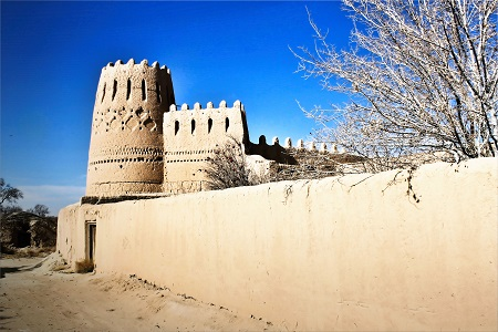 قلعه رشکوئيه